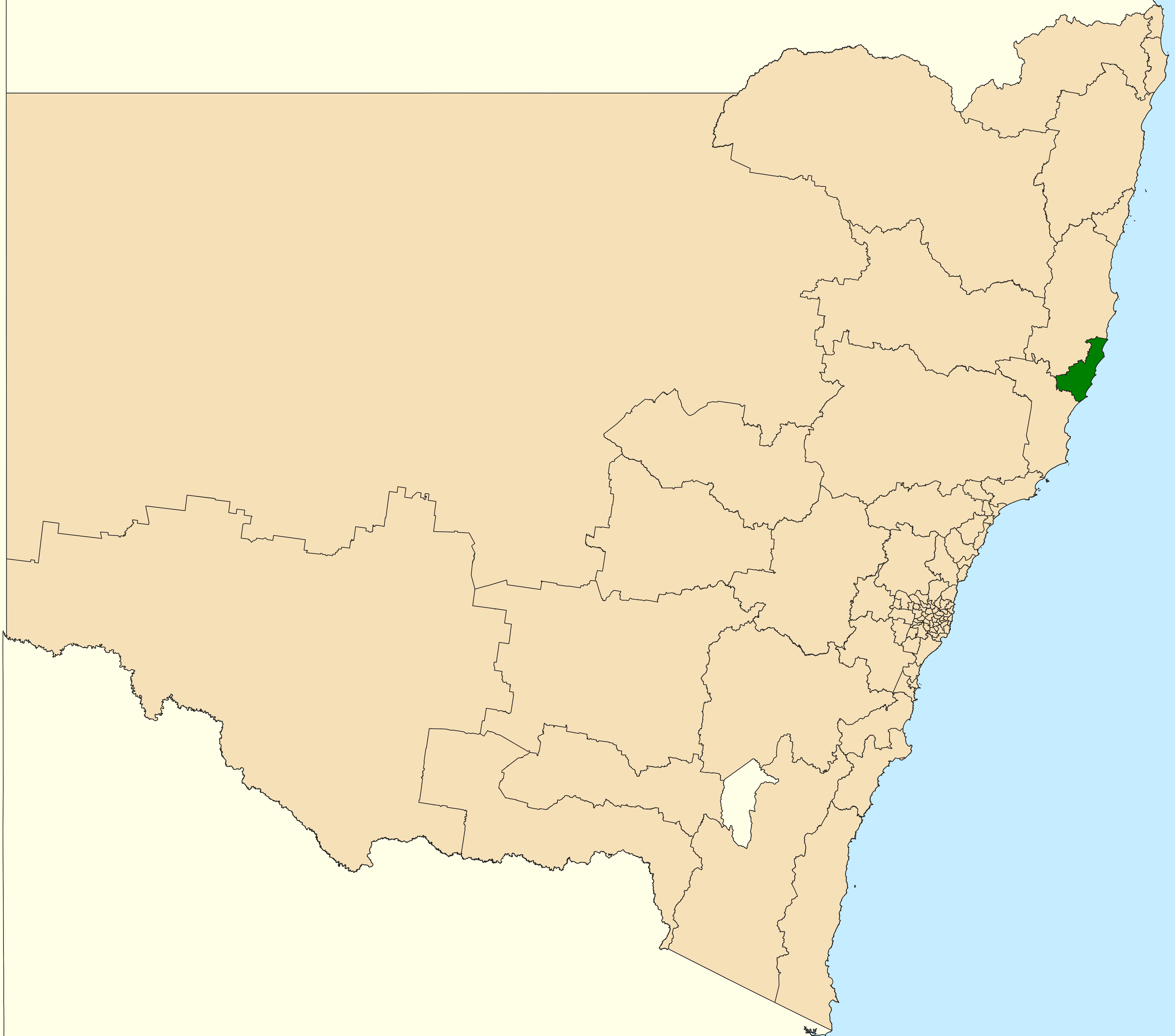 Location of the state electoral district of Port Macquarie (dark green) in New South Wales as of the 2019 New South Wales state election. Incorporates or developed using Administrative Boundaries ©PSMA Australia Limited licensed by the Commonwealth of Australia under Creative Commons Attribution 4.0 International licence (CC BY 4.0).